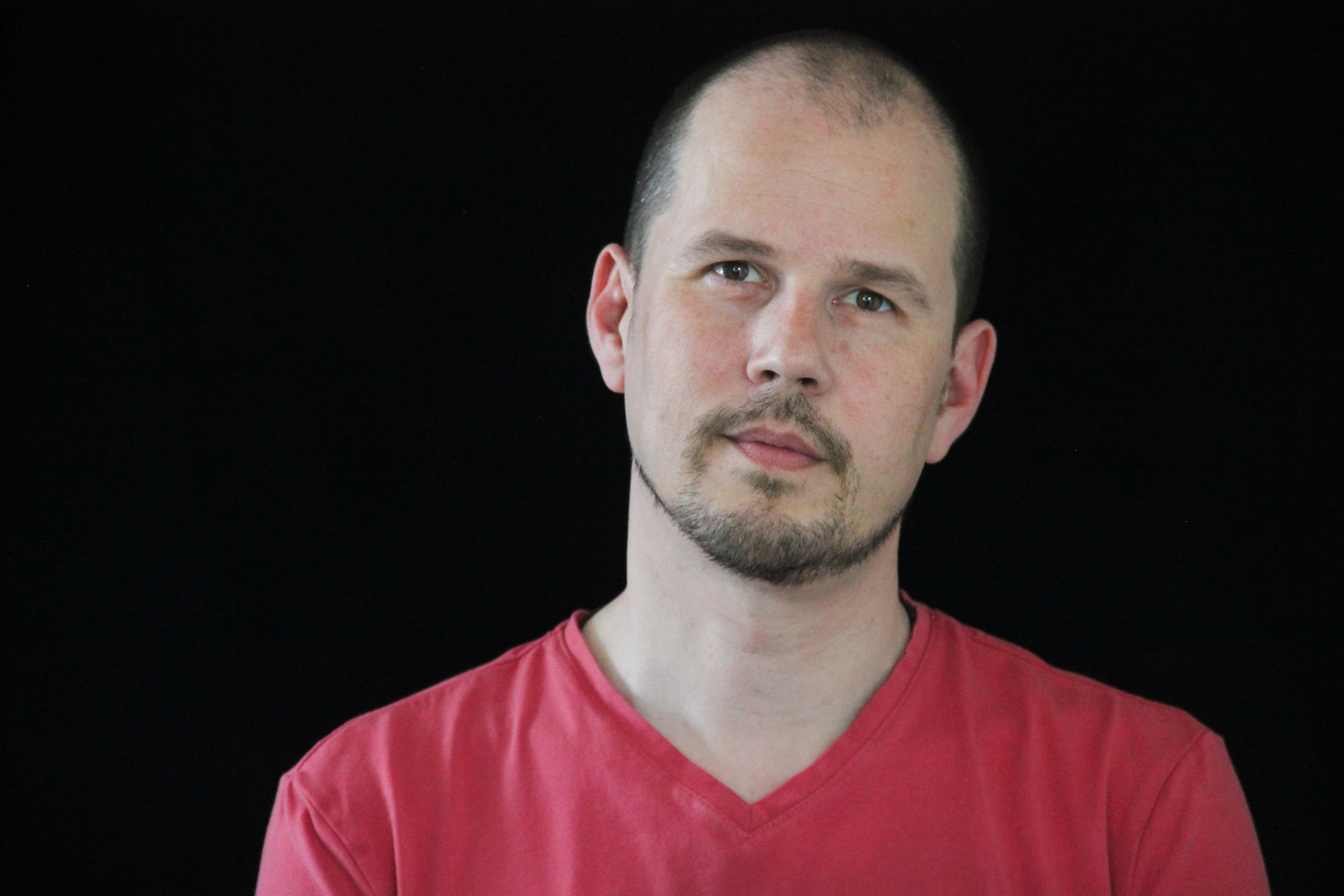 Koen Smit-Amor in 2018